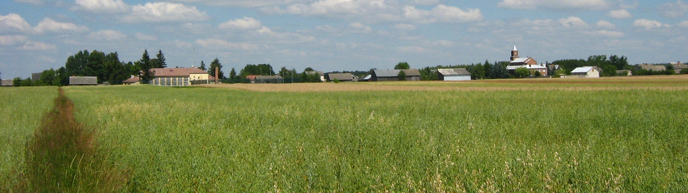 Krynka village, Poland.